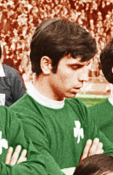 Giannis Tomaras, Panathinaikos Ajax - Wembley, 1971